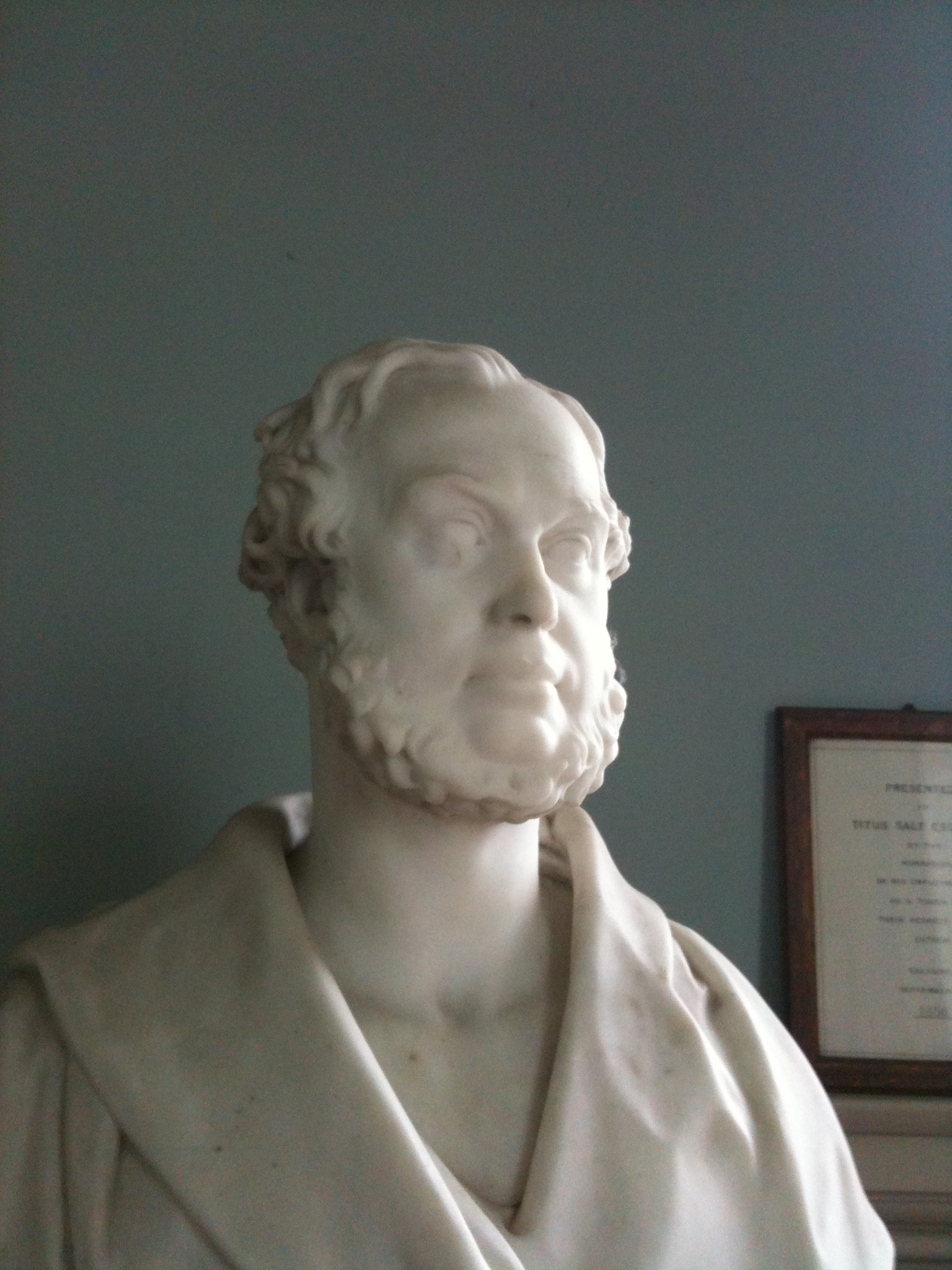 Detail of the bust presented to Titus Salt on his 53rd birthday on 1856-09-20. The bust and pedestal were created by T.Milnes, and presented to Salt by his workforce. They are currently in the United Reformed Church at Saltaire.